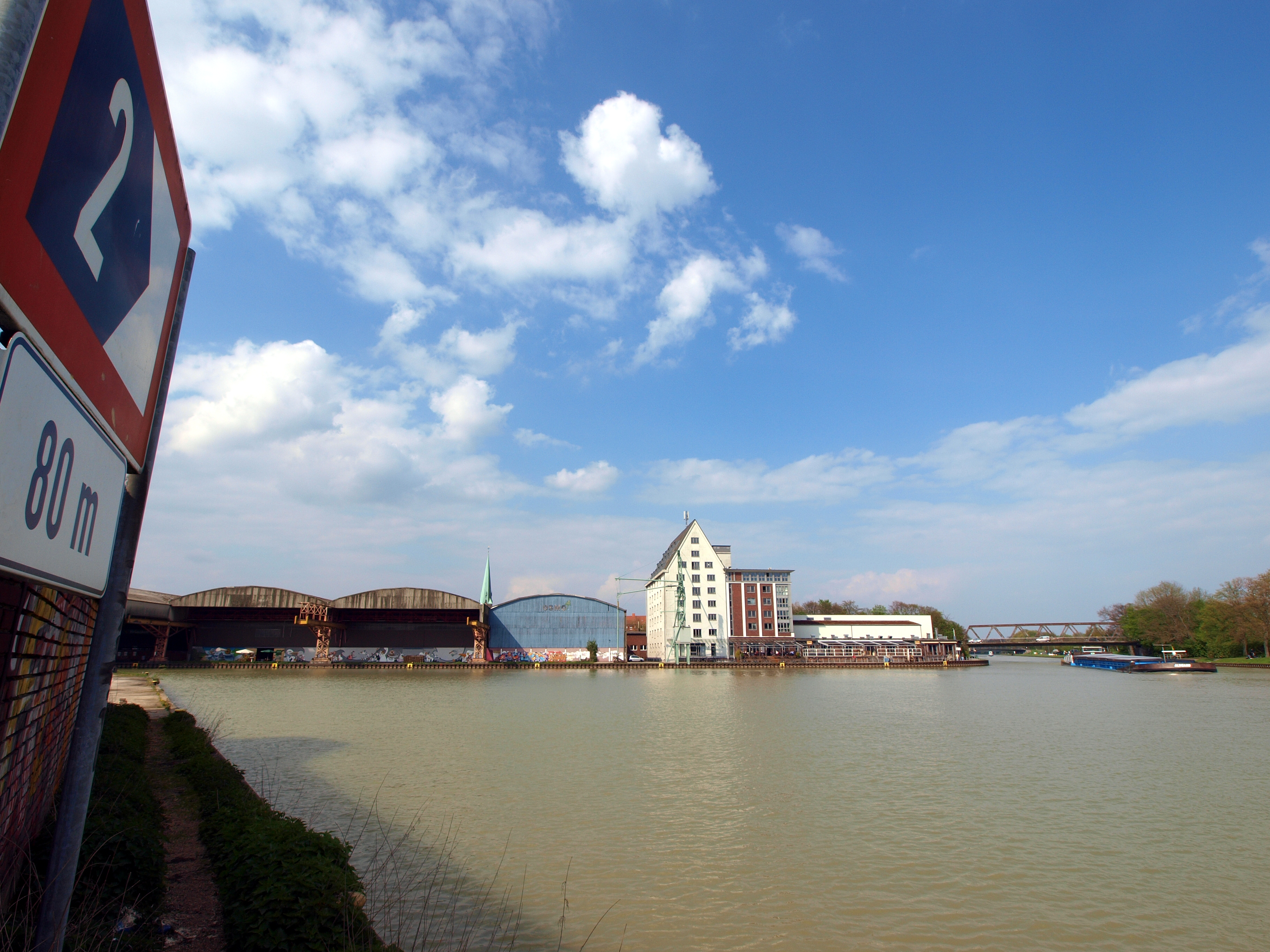 Entry of harbor Münster